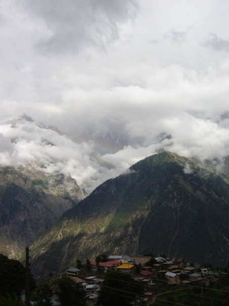 View of Kalpa Village and Kinnaur Kailash blocked by monsoons